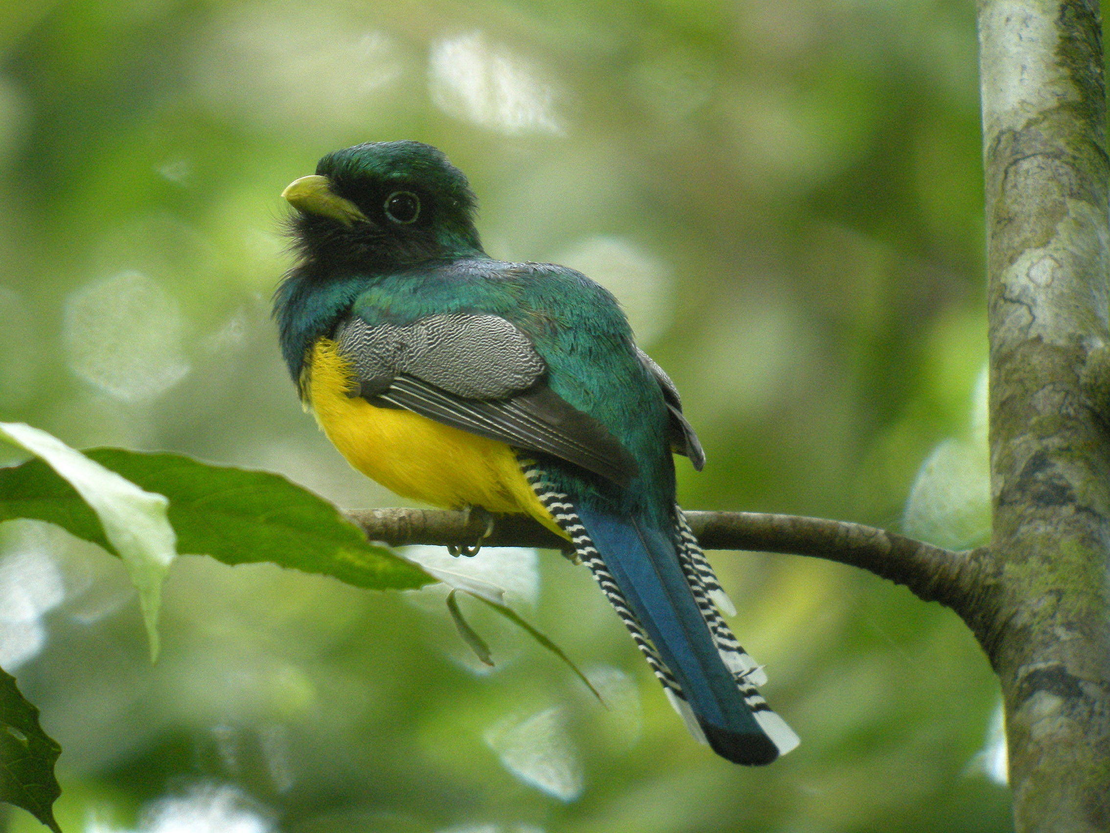 Digiscoping with Swarovski ATM 80 HD 30 X, Coolpix P5100 (Adapter DCB)